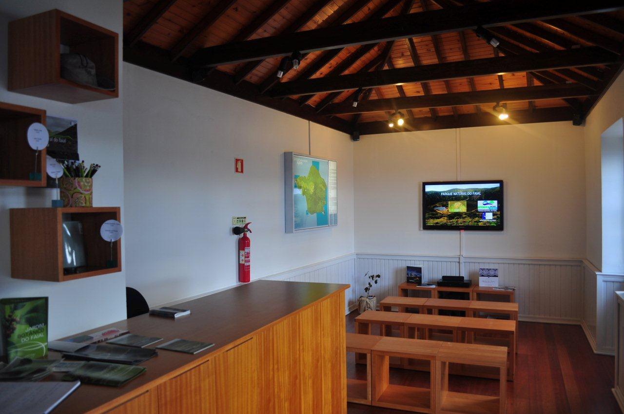 Park's House